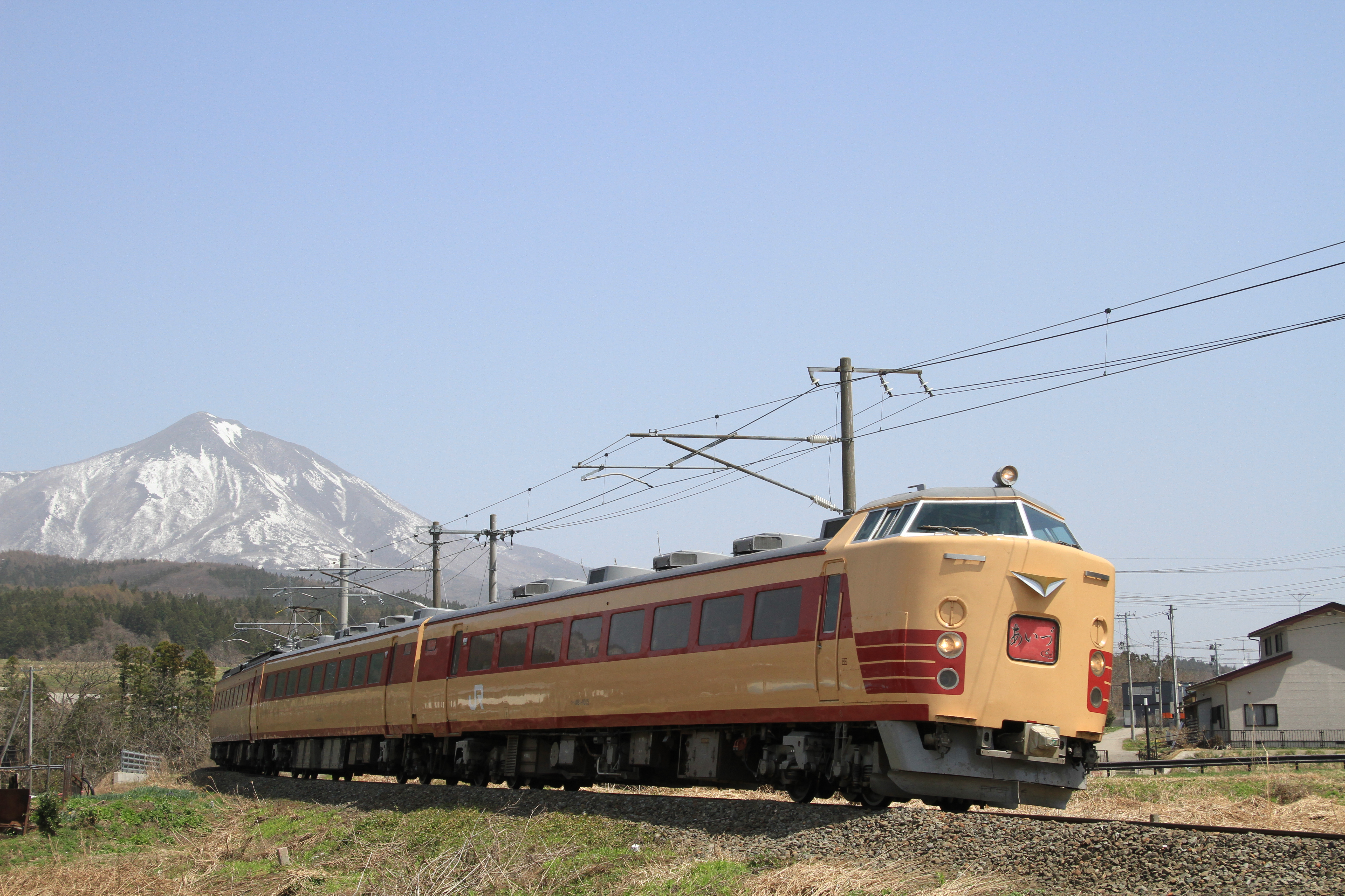 A JR East 485 series EMU headed by KuHa 481-1015 on an Aizu rapid service